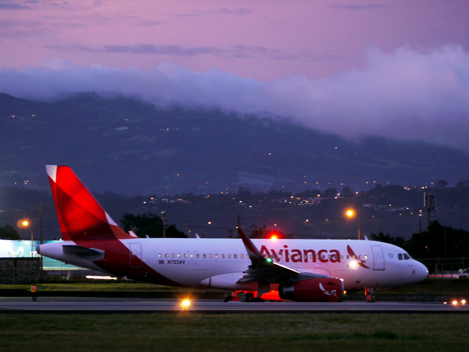 AVIANCA brand new N703AV at MROC / SJO.